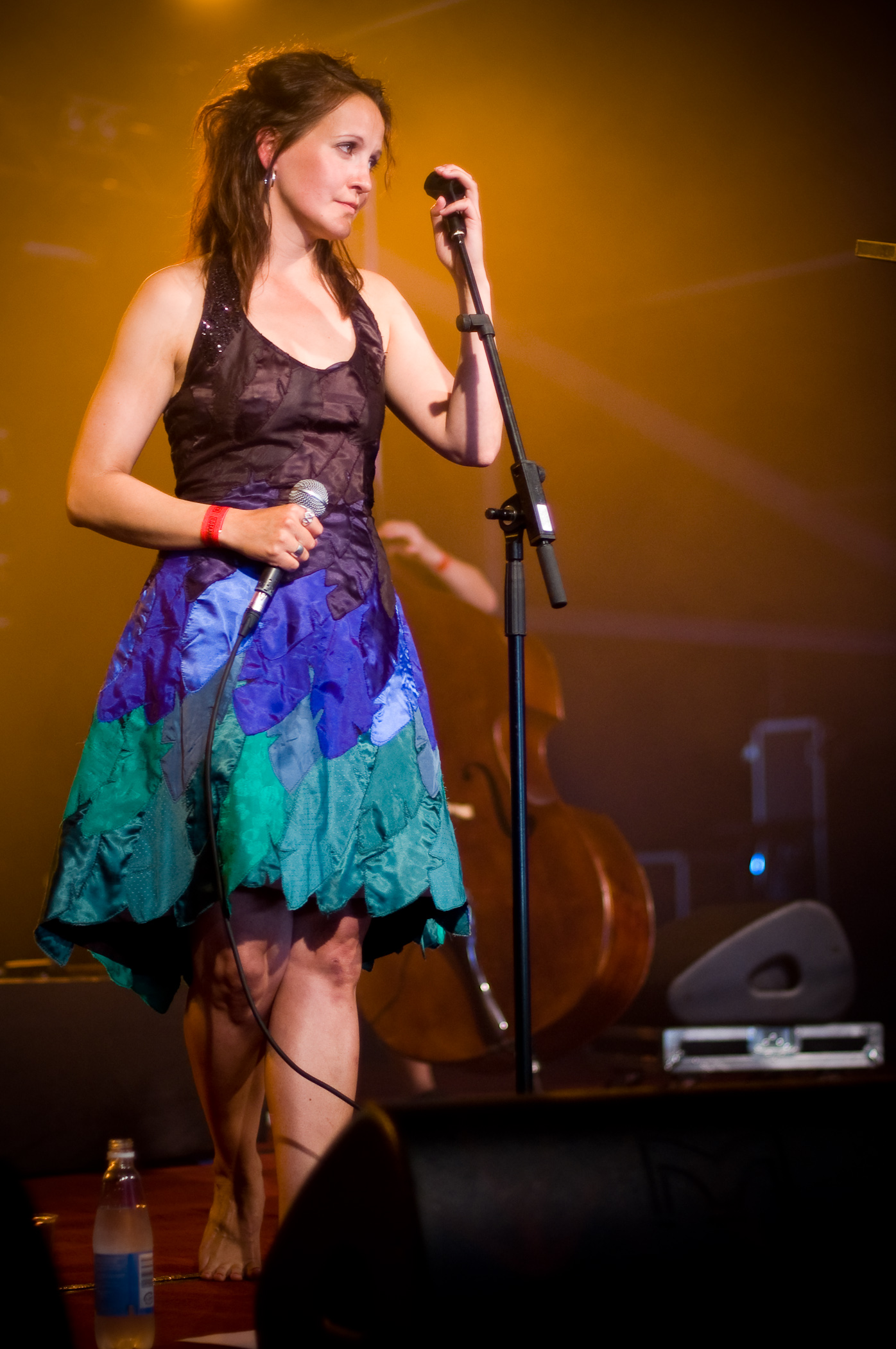 Vocalist Vuokko Hovatta performing at the Ilosaarirock festival on the 13th of July 2008 in Joensuu, Finland.